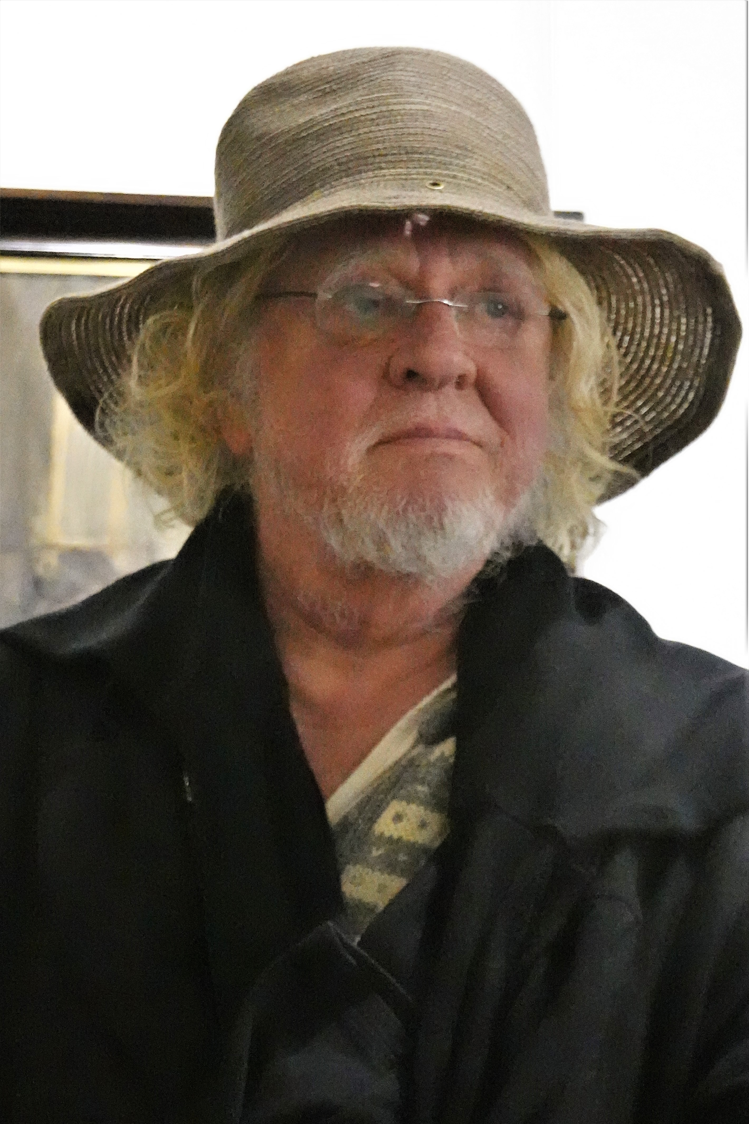 picture of the artist in Gallen-Kallela Museum press conference, Tarvaspää, Espoo, Finland